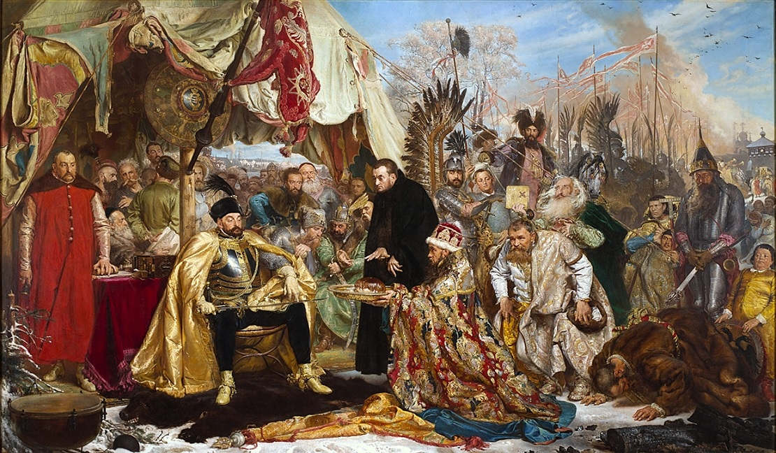 During the Livonian War (1578-1582), between Ivan the Terrible of Russia and Stefan Batory of the Polish-Lithuanian Commonwealth, the city was besieged by the Polish and Lithuanian forces. The joined army failed to capture the city, but forced Russia to return other territories and gained Livonia. The siege was the setting of this painting. The siege of Pskov from the Polish perspective: Batory at Pskov, 1579. Painting by Jan Matejko in 1872. Matejko's allegoric painting illustrates the concept of romantic nationalism: the Muscovites are represented doing homage to the Polish king, which appear victorious, although in reality Pskov never fell to the Poles, as the conflict ended with negotiations before the siege was concluded.